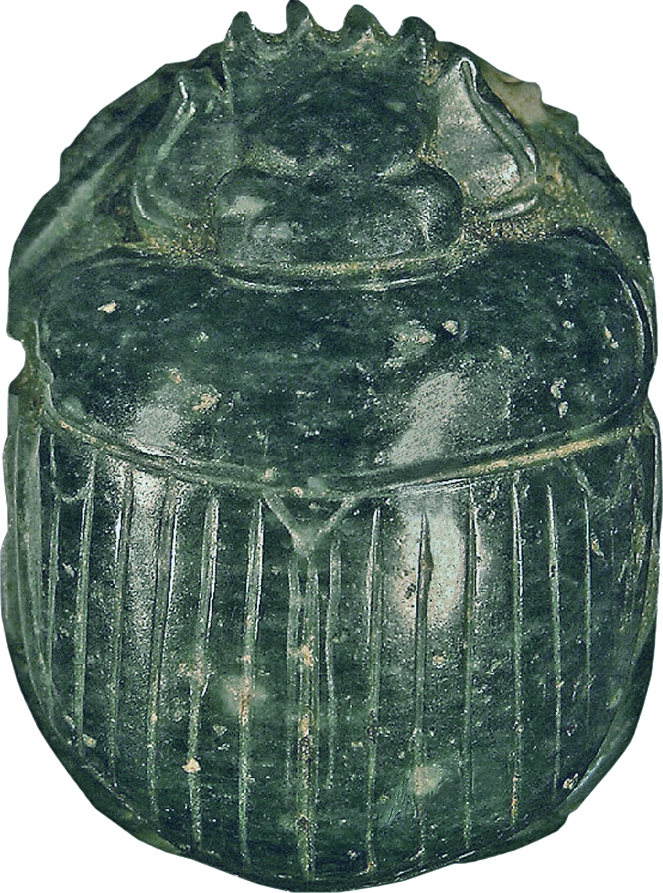 This scarab has a flat underside without a bottom design. The design of the back is very detailed with fine incised hatch marks and shoulder marks, and irregular line flow. The proportions of the top are well balanced. The workmanship is excellent and the piece is elaborately made. The scarab functioned as a funerary amulet with a renewal connotation, and could have been an inlay of a pectoral or a heart scarab. The piece was originally mounted or threaded.